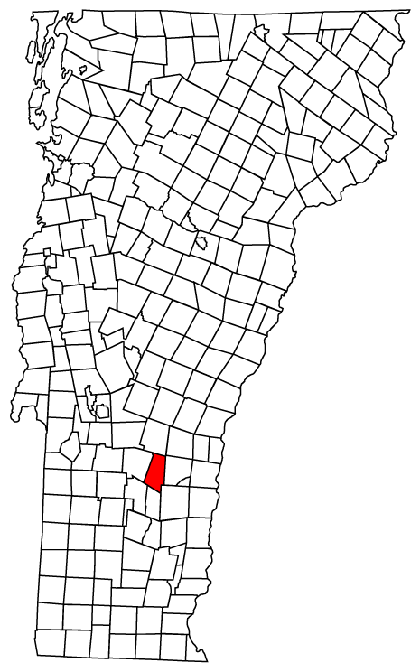 Description: Map of Vermont towns with Ludlow highlighted Source: Map created by Jared C. Benedict on 26 March 2004. Copyright: © Jared C. Benedict.